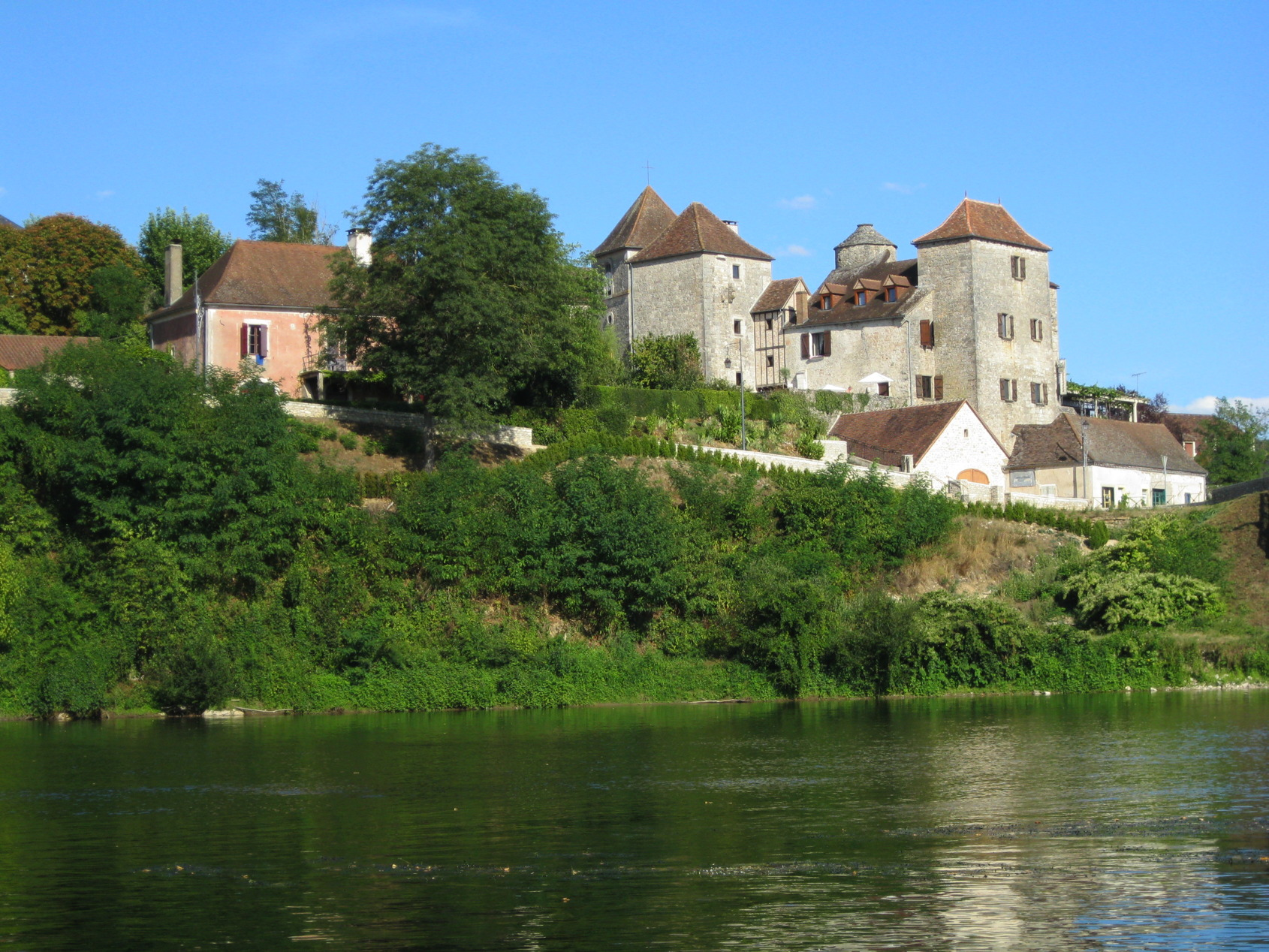 View of town Meyronne in Lot department in France